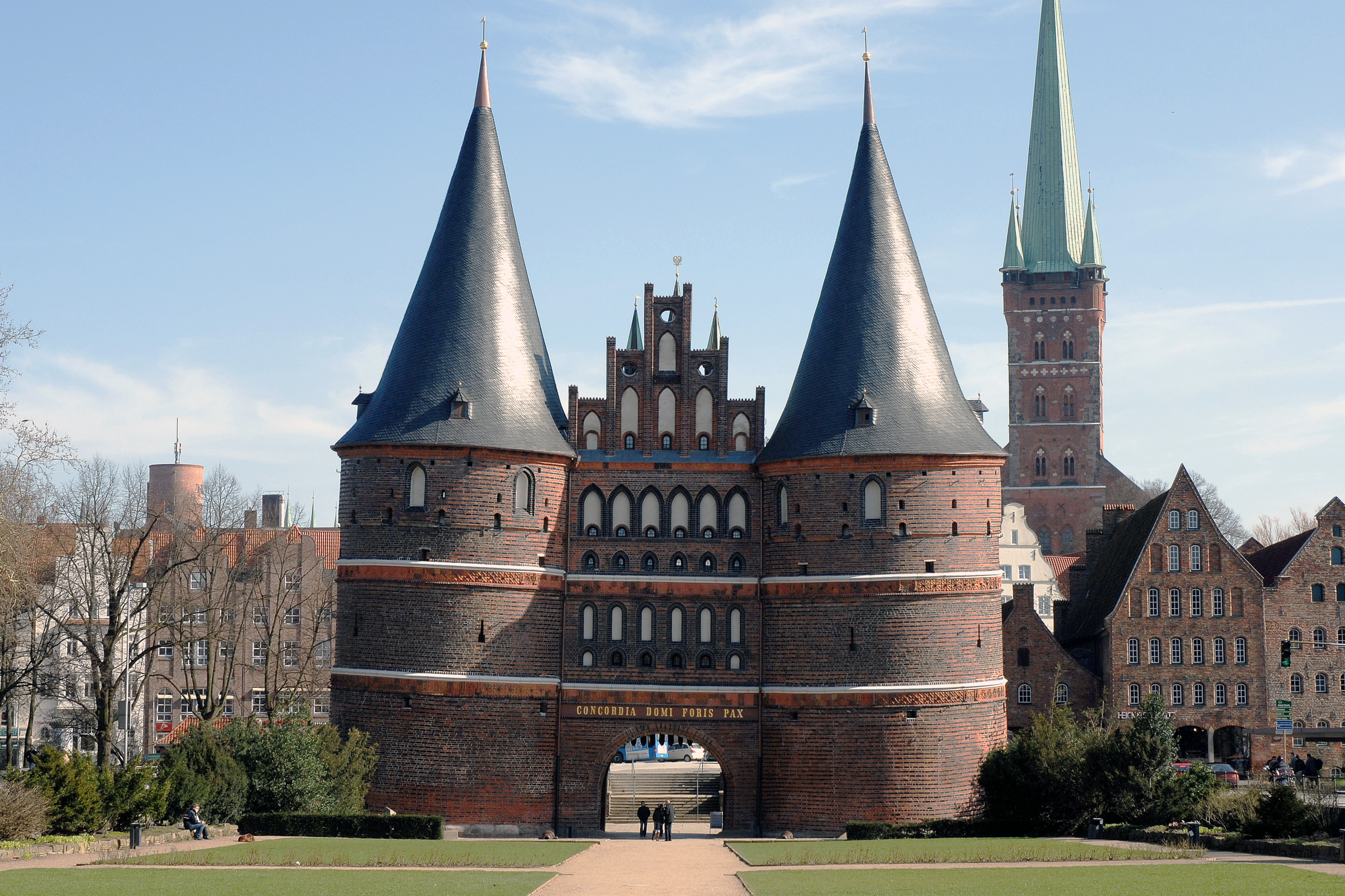 Holstentor (old town gate) in Lübeck, Germany